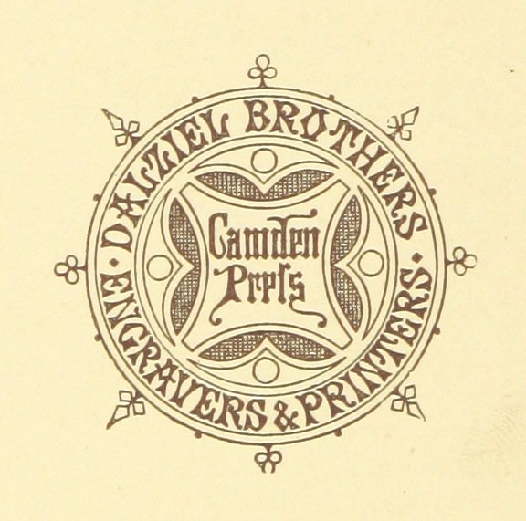 Image taken from: Title: "Golden Thoughts from Golden Fountains. Arranged in fifty-two divisions. Illustrations by eminent artists, engraved by the Brothers Dalziel" Shelfmark: "British Library HMNTS 11651.i.11." Page: 338 Place of Publishing: London Date of Publishing: 1868 Issuance: monographic Identifier: 003631404 Explore: Find this item in the British Library catalogue, 'Explore'. Download the PDF for this book (volume: 0) Image found on book scan 338 (NB not necessarily a page number) Download the OCR-derived text for this volume: (plain text) or (json) Click here to see all the illustrations in this book and click here to browse other illustrations published in books in the same year. Order a higher quality version from here.